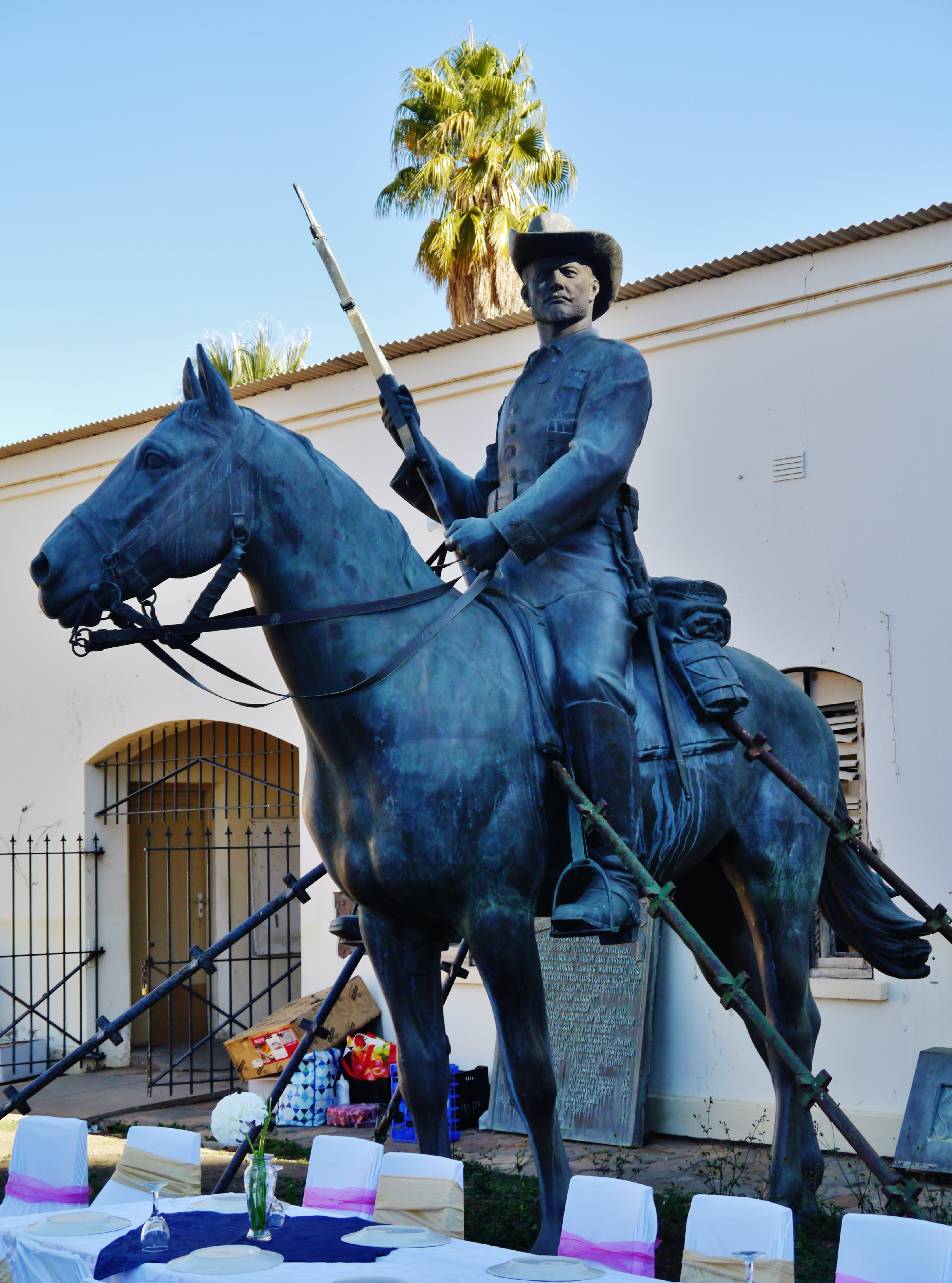 Southwest Equestrian at the Courtyard of the Old Fortress, Windhoek, Region of Khomas, Namibia